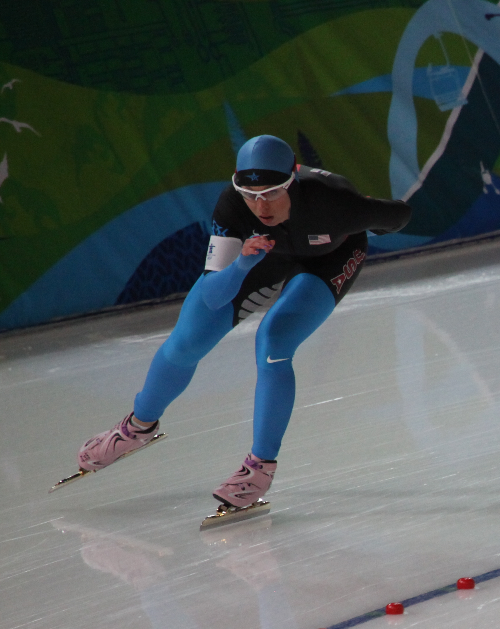 Pair 3 - Jilleanne ROOKARD (USA) - at Women's 5000m final - Speed Skating - Vancouver 2010.